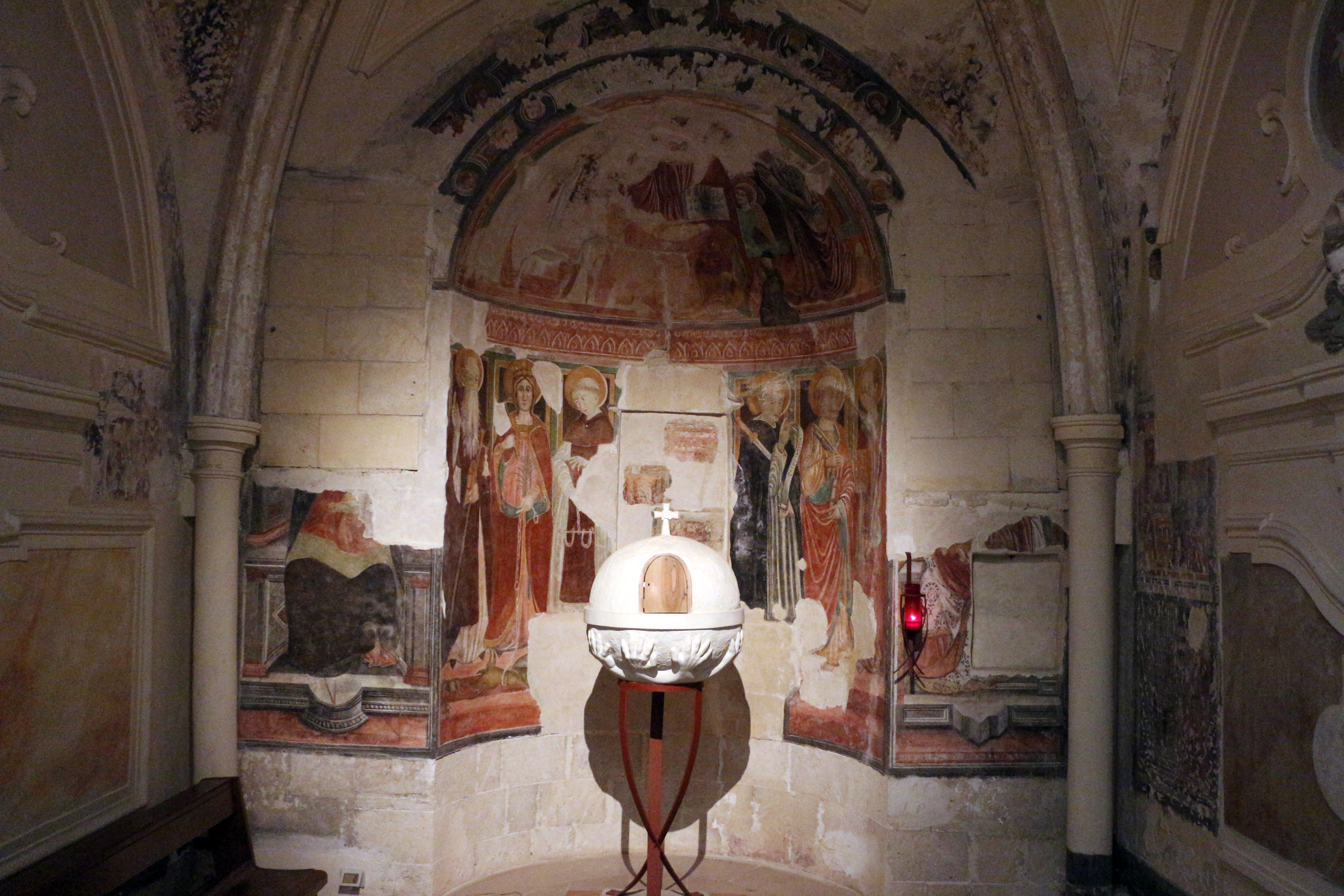 San Pietro Caveoso (Matera)